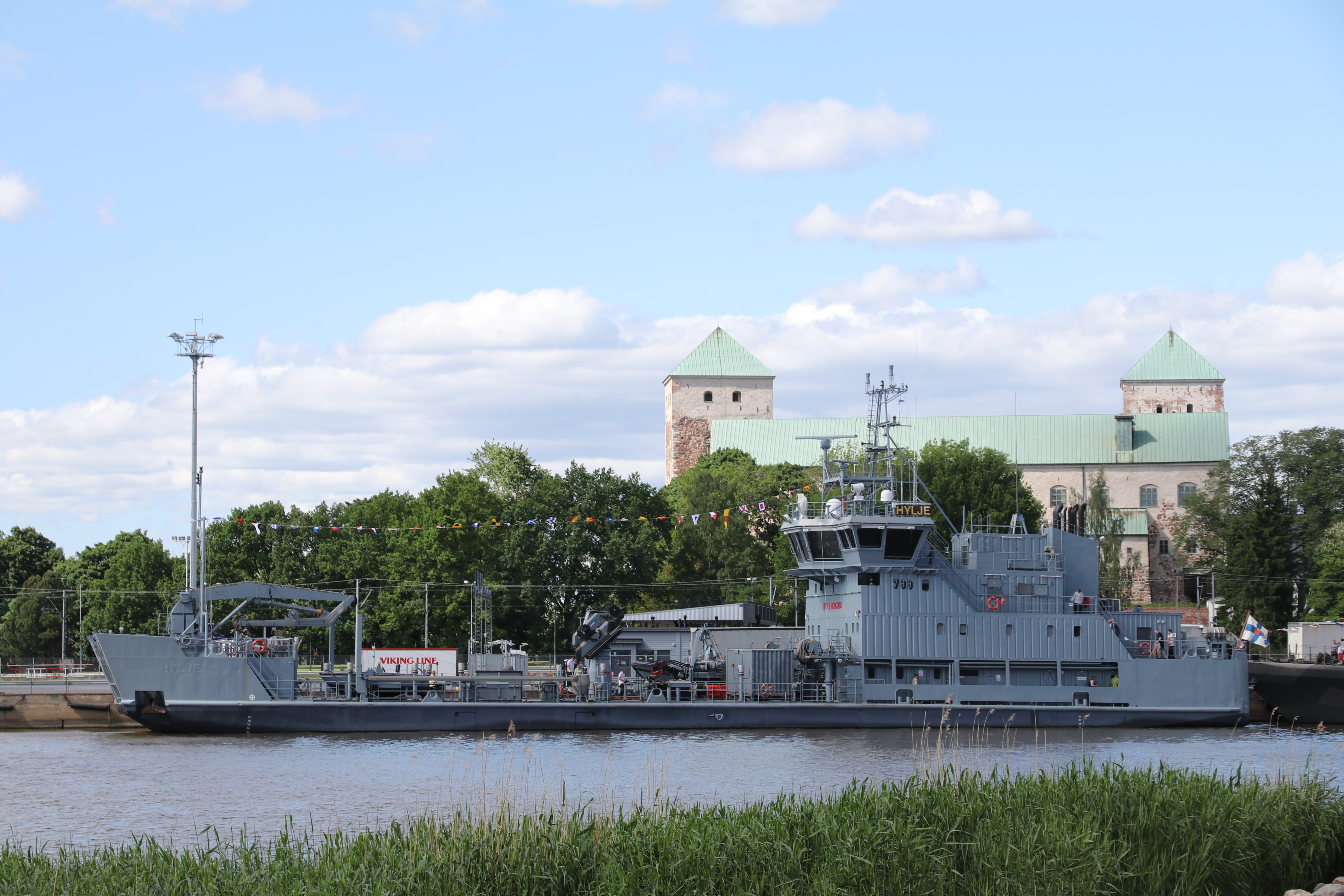 Finnish navy pollution control vessel Hylje (799). Photographed in 2016 Finnish defence forces flag day equipment exhibition in Turku Forum Marinum.